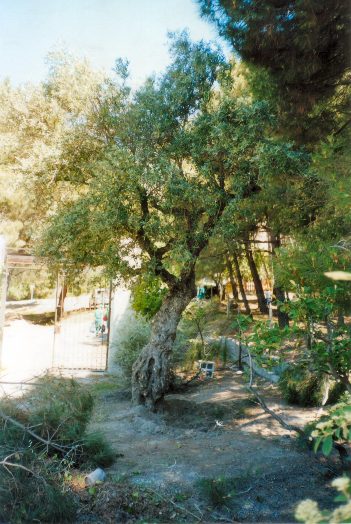 The olive tree beside which Frederico Garcia Lorca was said to have been shot. This is now disputed although it remains a site of homage. The photograph was taken in 1999. The tree is near the village of Alfacar, Spain at 37•14' North, 3•33' West.